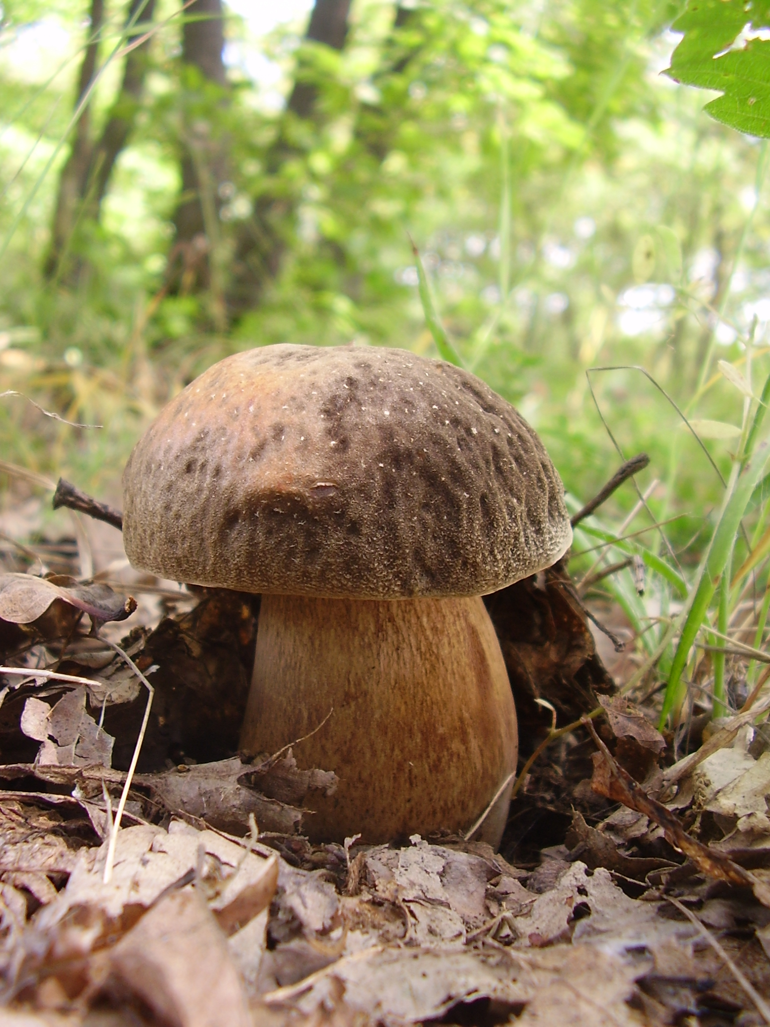 Boletus aereus under oak near Sofia, Bulgaria.